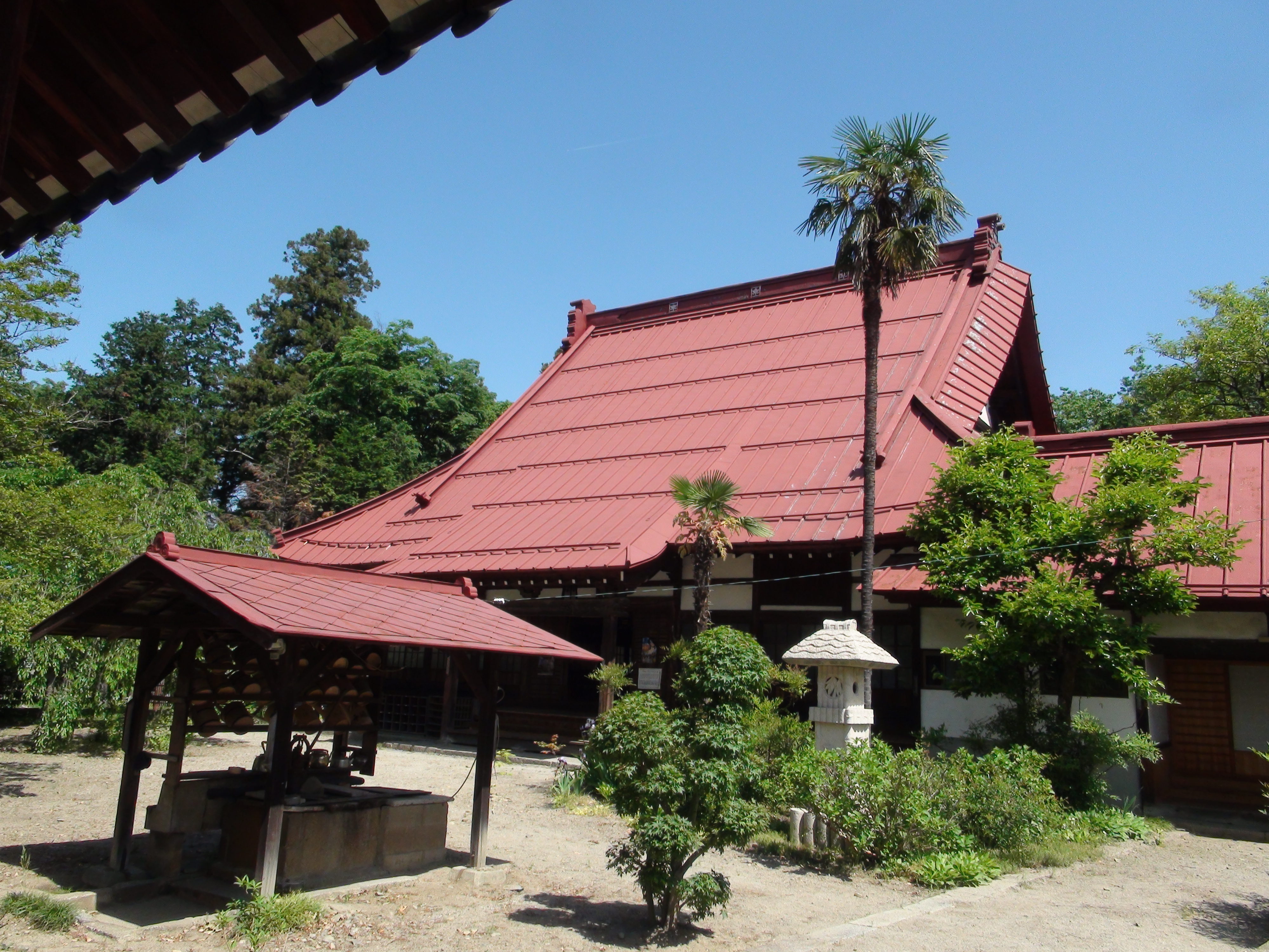 Kuri and Kyakuden of Risshou-ji Temple.koshu city